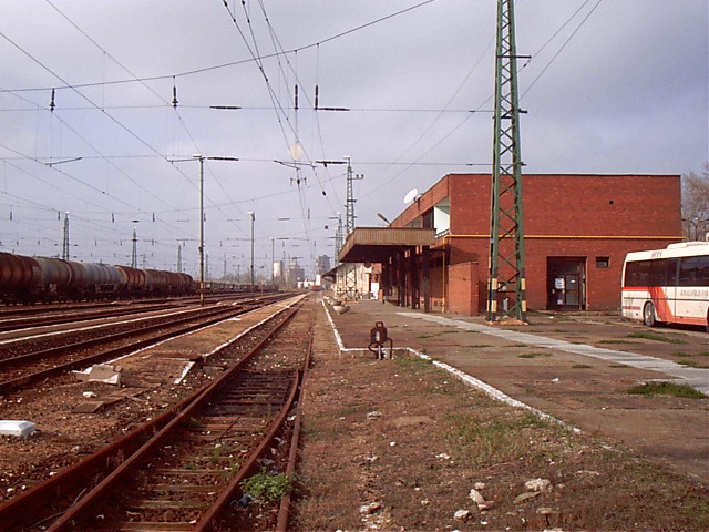 Almásfüzitő railway station